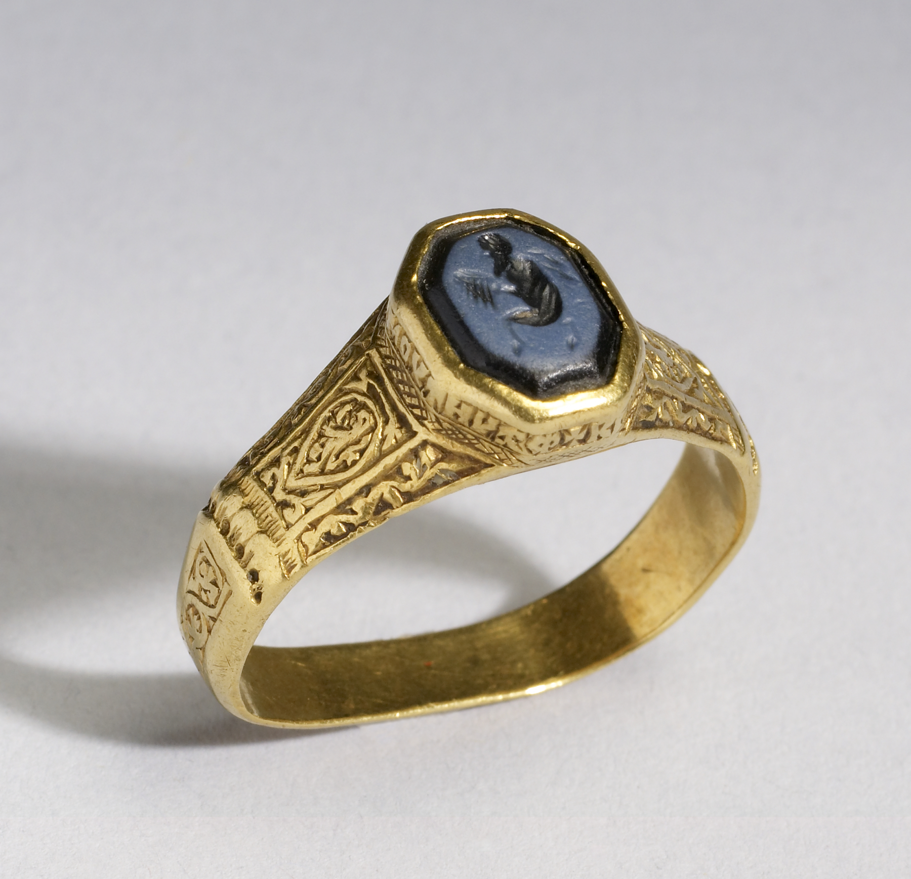 The hoop of this large signet ring is decorated with scrollwork. The sides of the octagonal bezel, which is framed by two lions at the shoulders, are inscribed in Greek with a quotation from Psalm 26: "Lord, my Light and my Savior, whom shall I fear?" In contrast to this Christian motto, the intaglio depicts the pagan god Pan, who is represented as an older bearded man with goat's legs and his characteristic pipes.